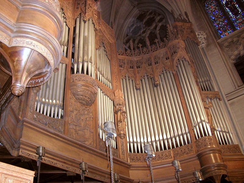 St Patricks Cathedral Gallery Organ Case